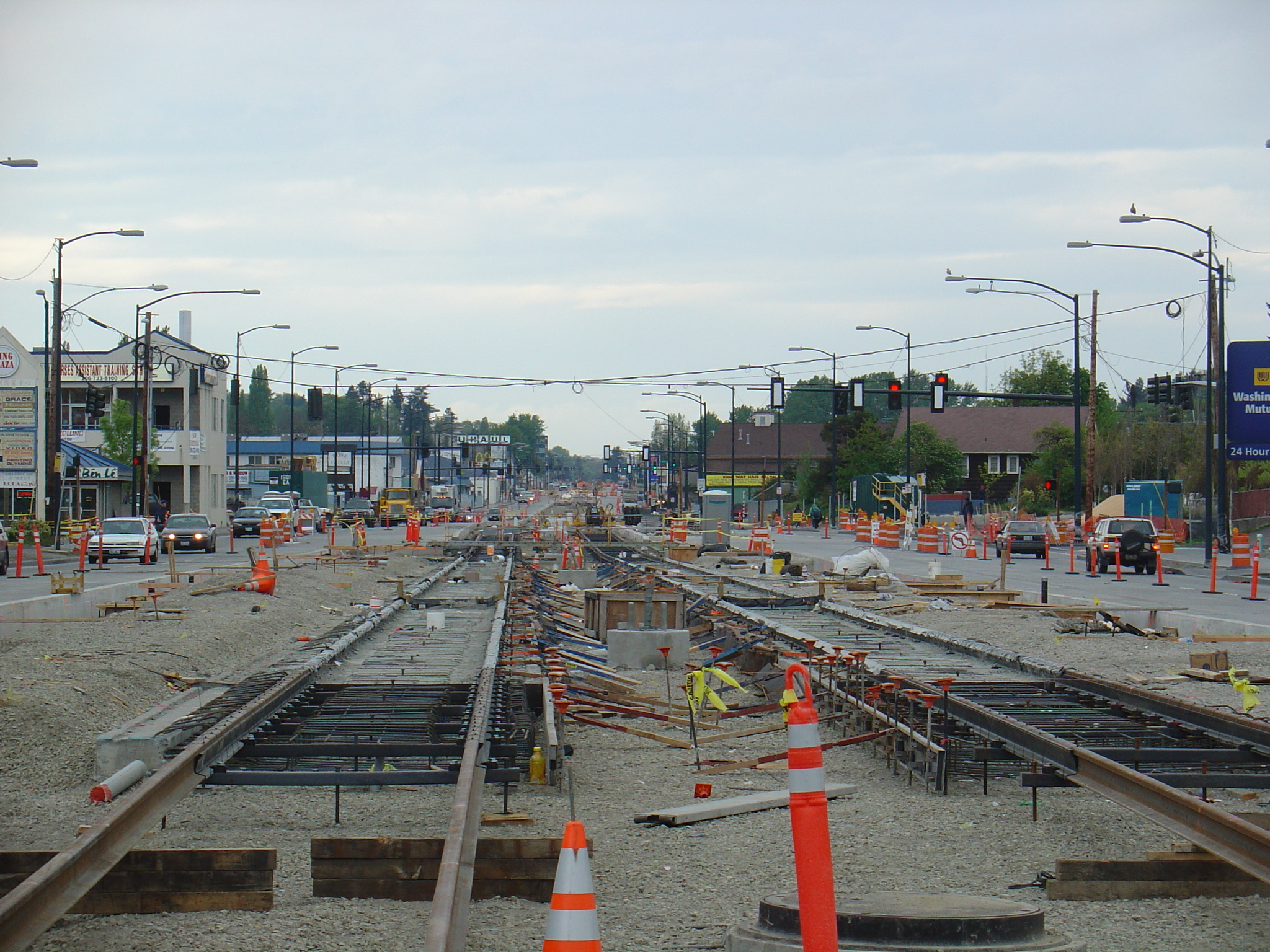 Construction of Link light rail in Seattle's Rainier Valley, near the location of Othello station.